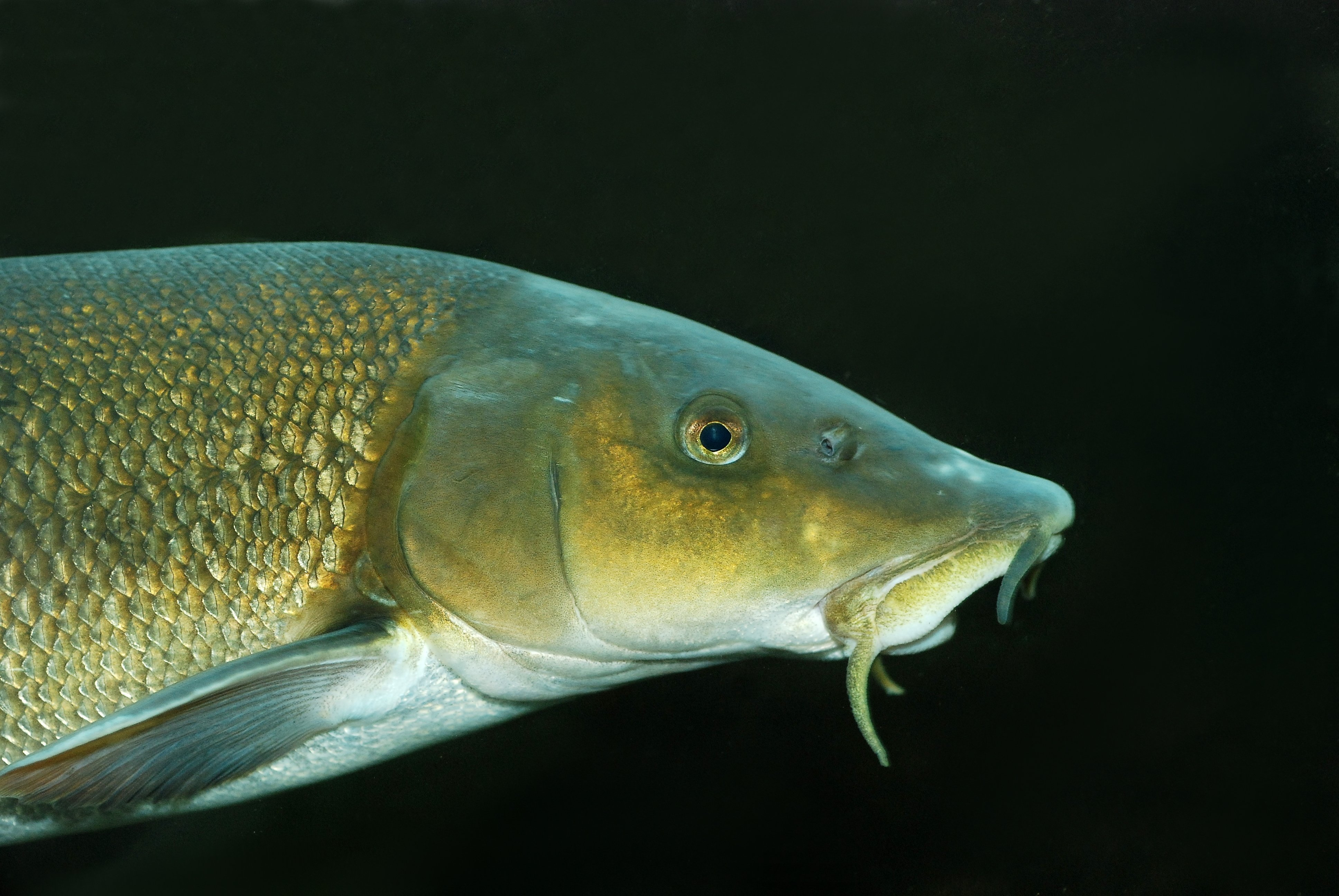 Common Barbel.